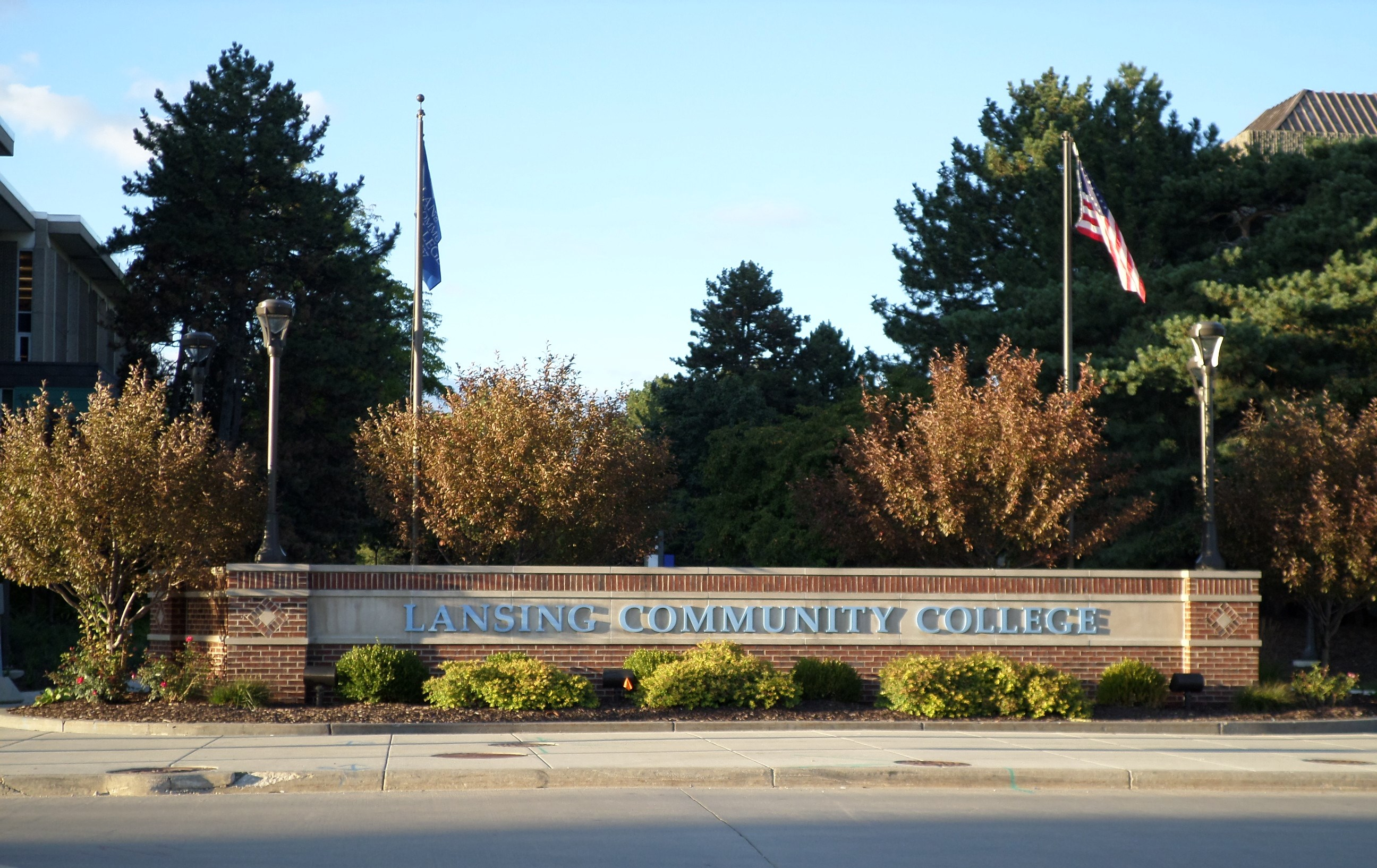 The entrance sign for Lansing Community College, located along W. Shiawassee St, Lansing, MI.